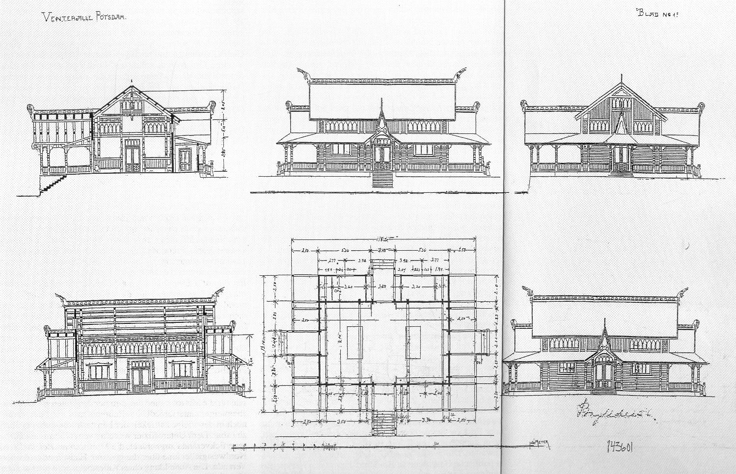 Sketch of the reception pavilion ("Ventehalle") of the sailors' station Kongsnæs in Potsdam, Germany